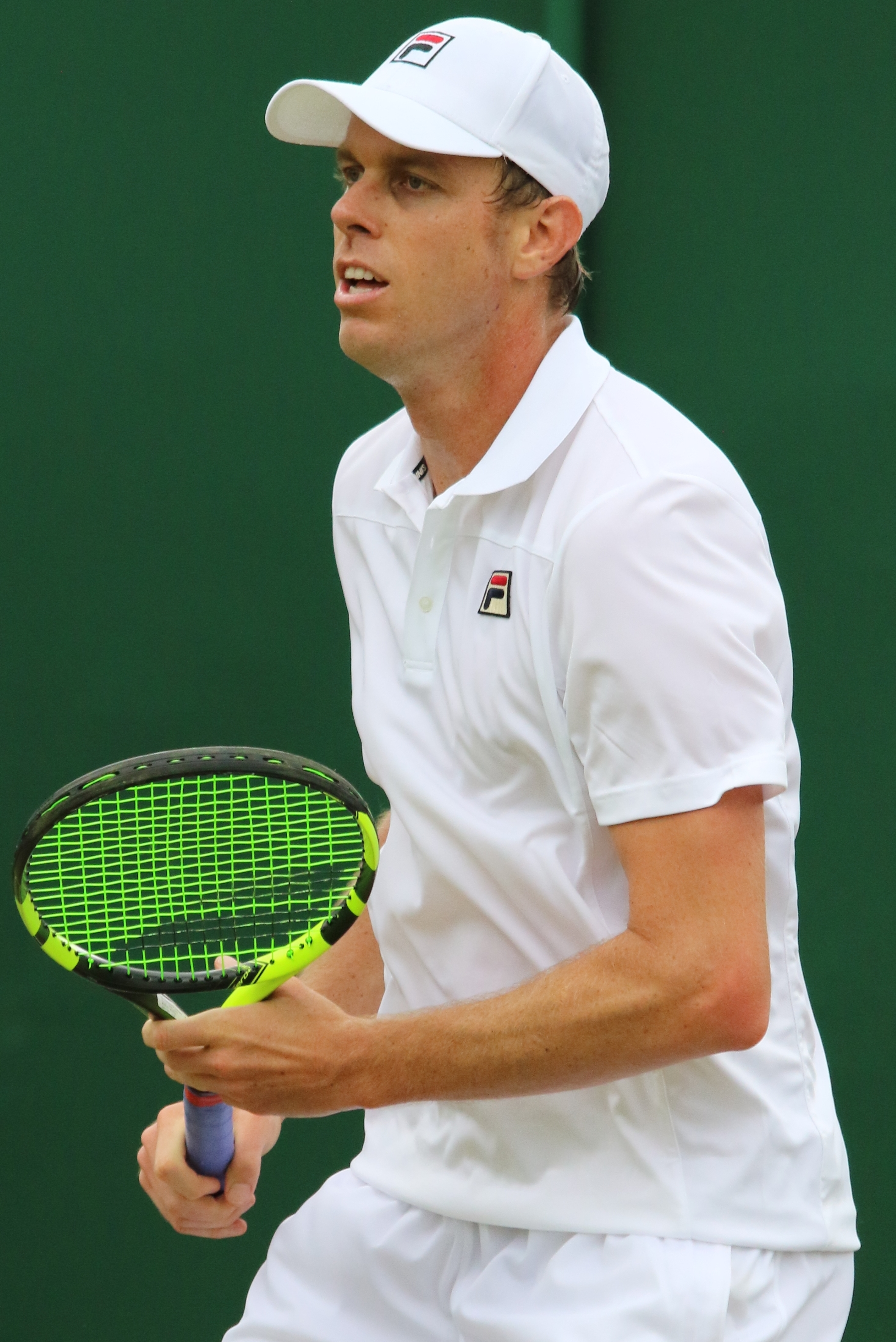 Querrey WM17 (16)